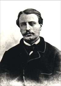 French composer, singer, actor and theatre director Hervé (Florimond Ronger, 1825-1892)